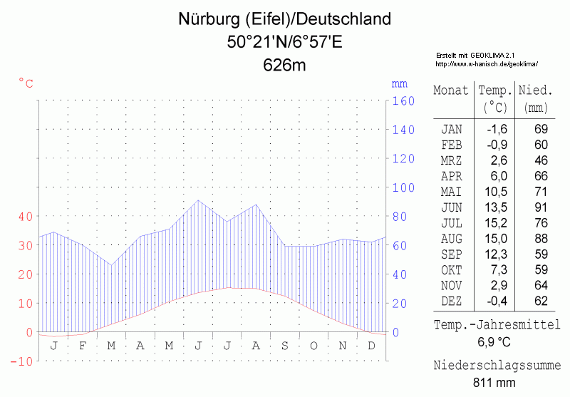 climate chart in the format by Walther and Lieth, metric, °Celsisus and millimeters, made with Geoklima 2.1